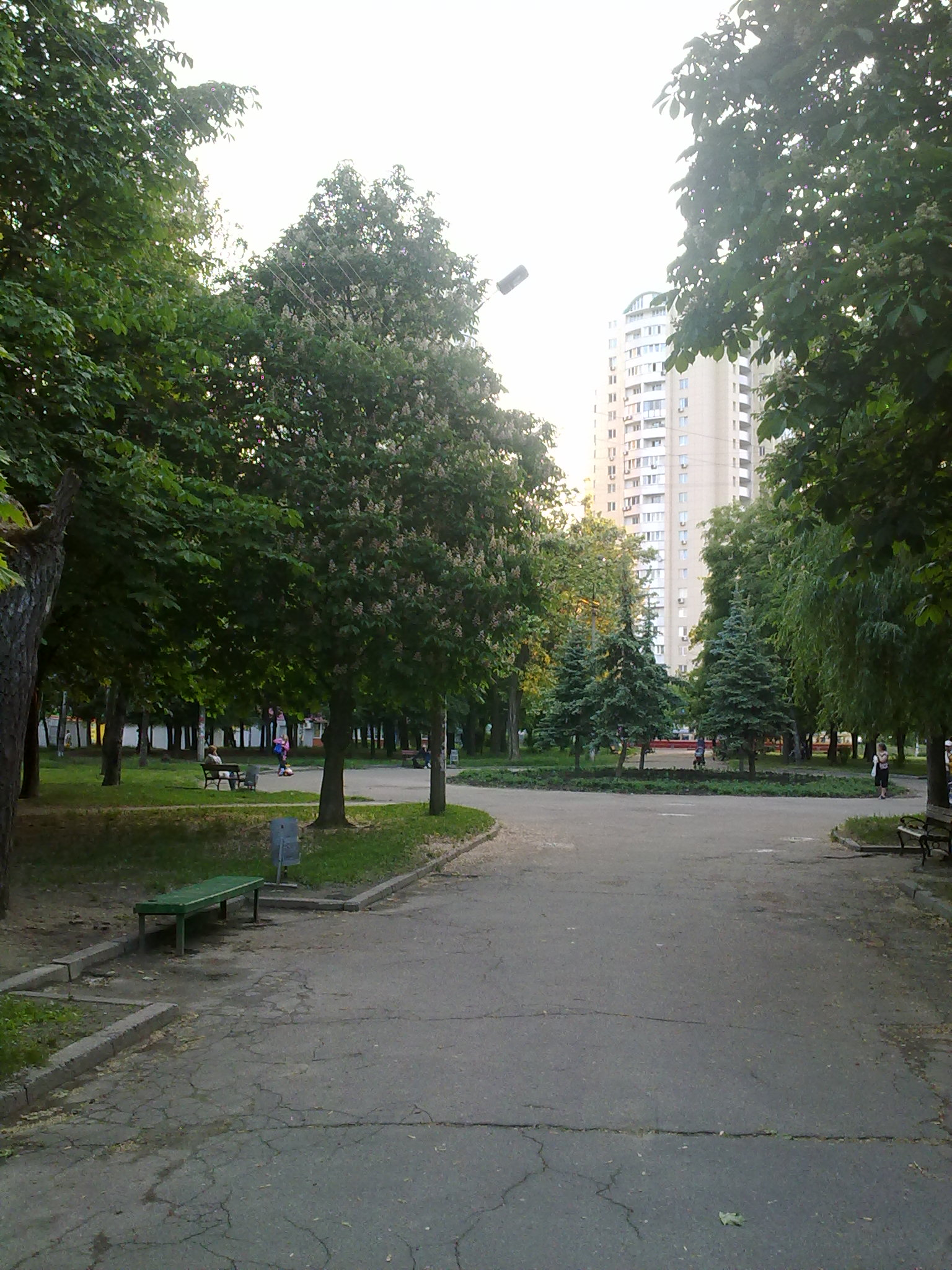 Potapov M.I. public park in Kyiv (сentral reddening)